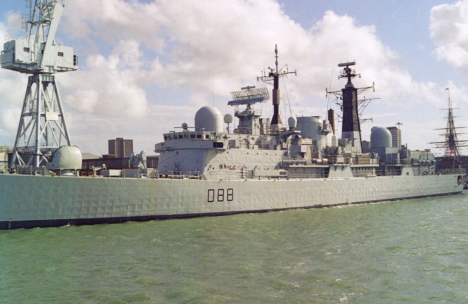 Portsmouth - UK, April 2000.